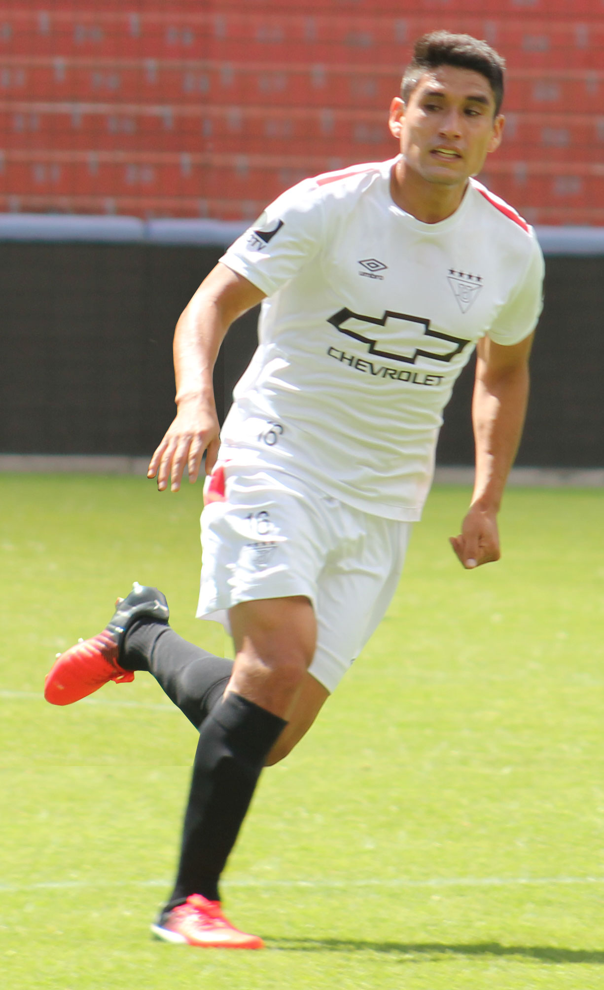 Irven Avila jugando en LDU